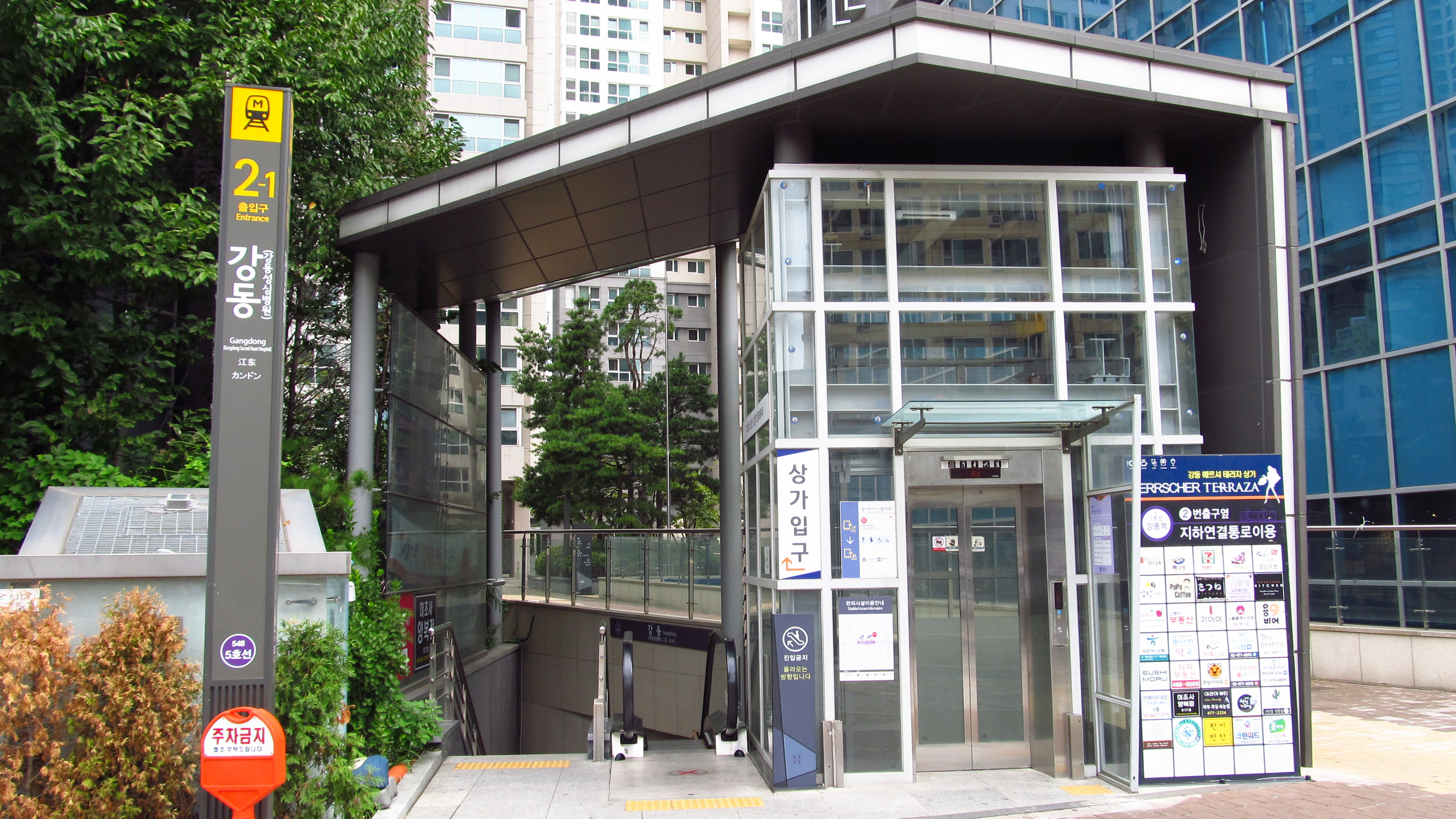 The no.2-1 entrance to Gangdong Station on the Seoul Metro Line 5 in Gangdong-gu, Seoul, Republic of Korea(South Korea)